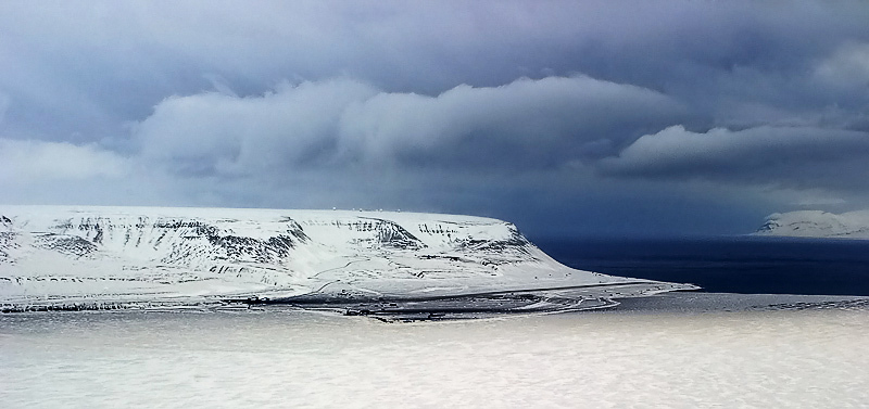 Platåberget with Svalsat and Svaldbard airport Longyear by its foot.